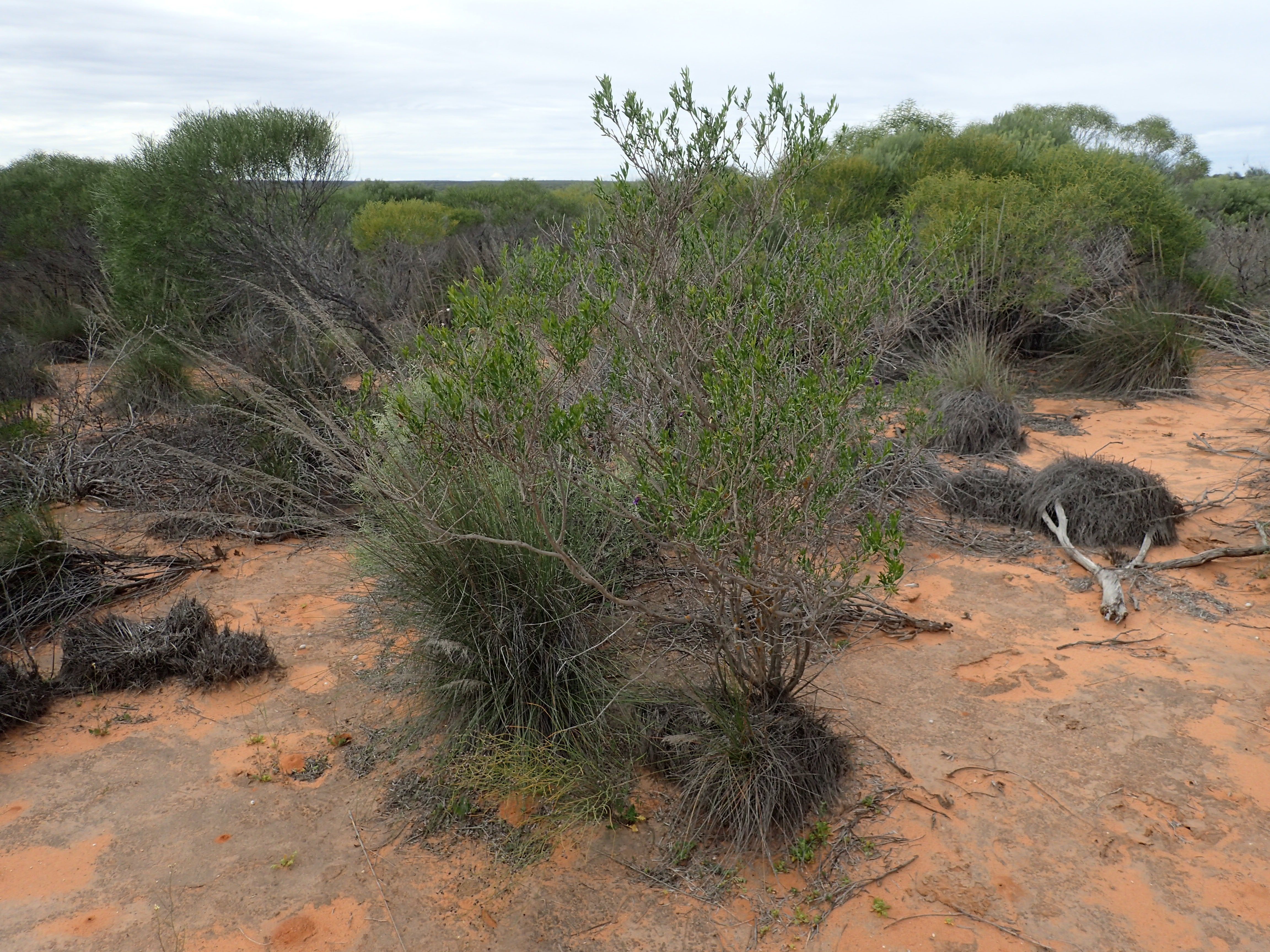 Eremophila occidens growing about 23km along Useless Loop Road near Shark Bay